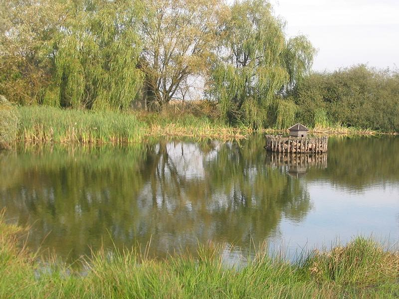 Villagepond in Benken. The village Benken is a part of the municipality Wiesenburg (Mark) in the district Potsdam-Mittelmark of the German state Brandenburg. Benken appertains to the nature park Naturpark Hoher Fläming.